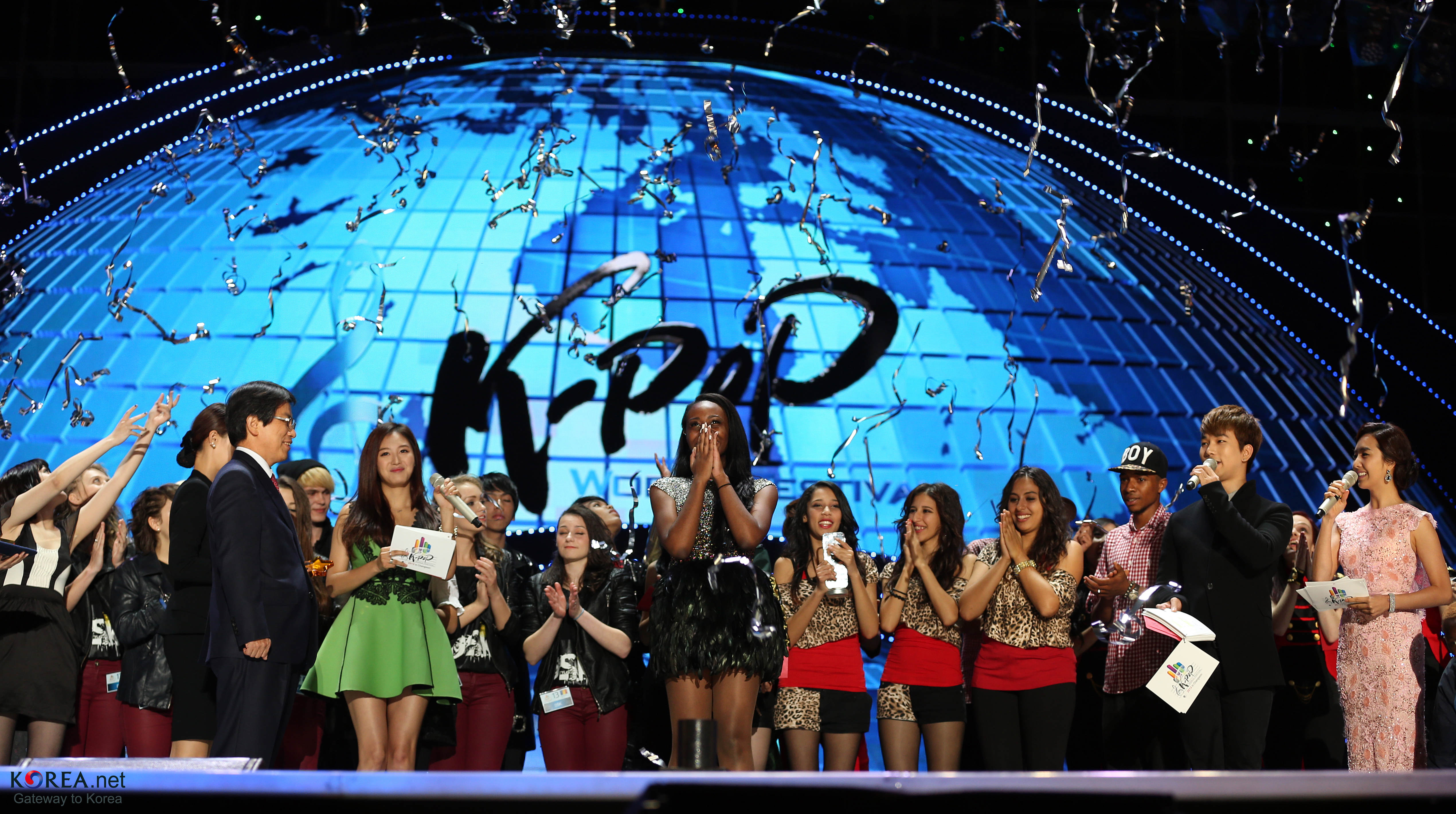 2013 K-POP World Festival in Changwon October 20, 2013 Changwon-si, Gyengsangnam-do Related Articles Cheong Wa Dae K-Pop World Festival unites global fans -English K-Pop World Festival unites global fans -中文 “2013 K-POP世界庆典” 用K-POP连结全世界 -Vietnamese Cả thế giới hội tụ tại “K-pop World Festival 2013” -日本語 「Kポップワールド・フェスティバル2013」、Kポップで世界が一つに -Deutsch „K-Pop World Festival” bringt internationale Fans zusammen -Francais Un festival mondial de la K-Pop 2013 de haute volée -Russian K-Pop World Festival объединяет фанатов со всего мира -Arabic المهرجان العالمي للبوب الكوري يوحد الجماهي Ministry of Culture, Sports and Tourism Korean Culture and Information Service ( Jeon Han 2013 제3회 K-POP 월드페스티벌 2013-10-20 경상남도, 창원시 문화체육관광부 해외문화홍보원 코리아넷 전한